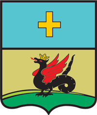 Kashira (Moscow oblast), coat of arms (1778)